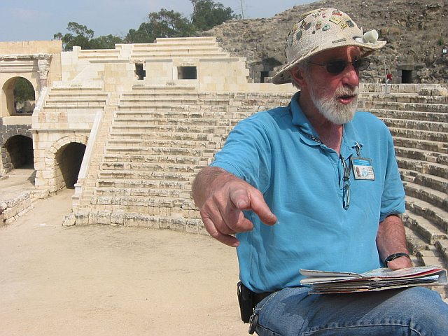 Israeli lecturer Walter Zanger at The Roman Theatre in Beit She'an